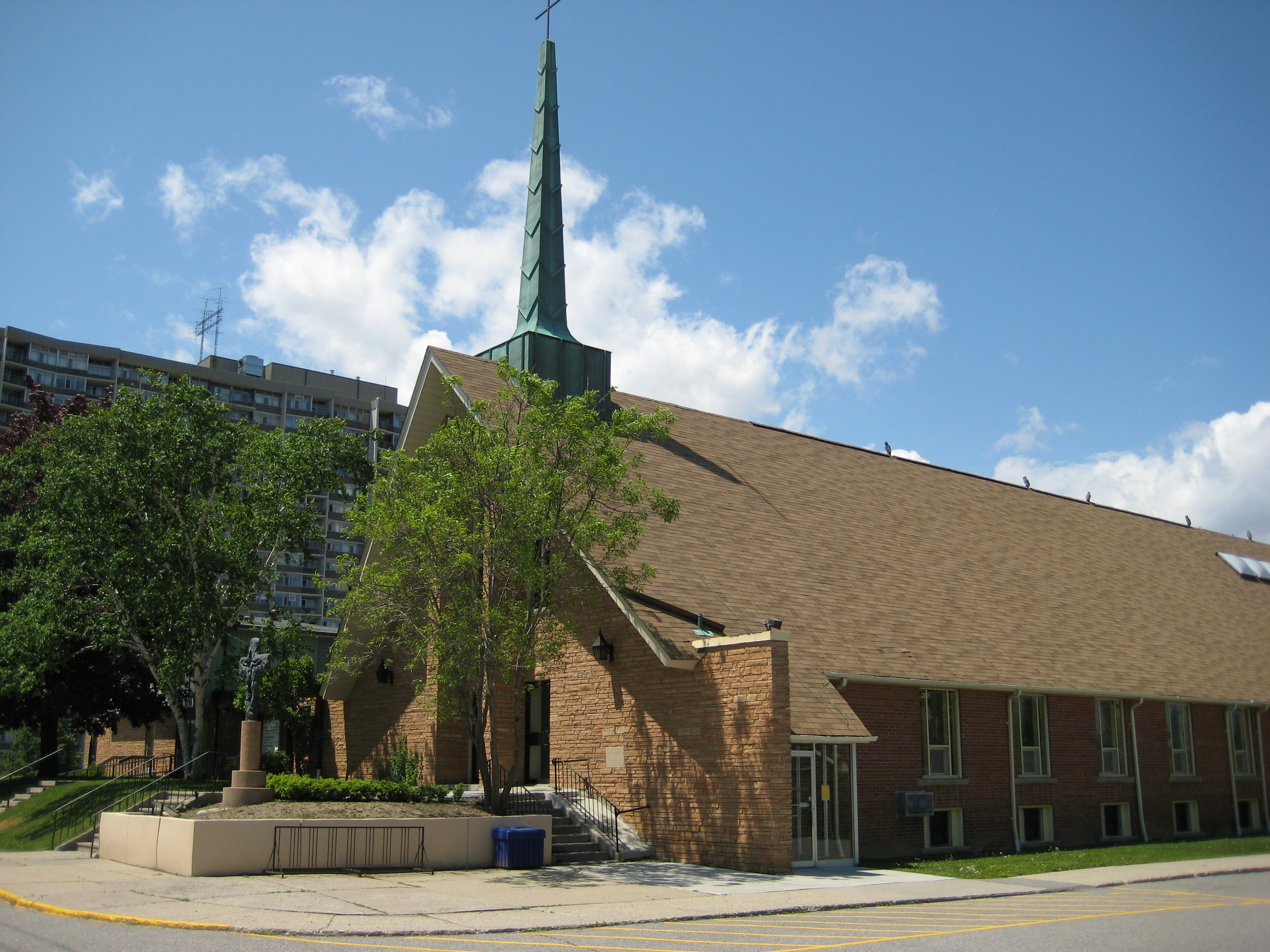 Holy Spirit Roman Catholic Church, Toronto